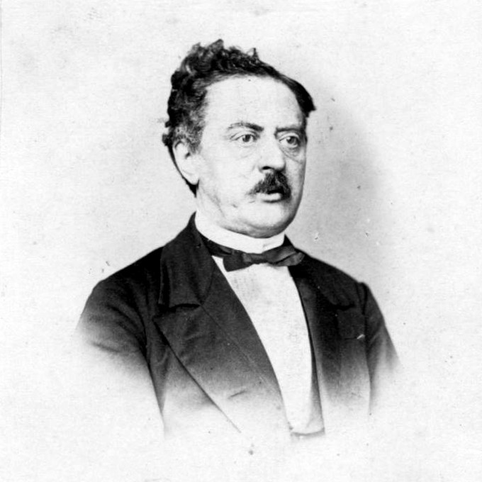 Artist: Unknown Date/place: Unknown Subject: Ernst Haberbier Medium: Photographic posetiv Notes: German composer. Born in Köningsberg 05.10.1813 dead in Bergen 12.03.1869 Original belongs to the Archives at [#//bergenbibliotek.no/digitale-samlinger” Bergen Public Library]